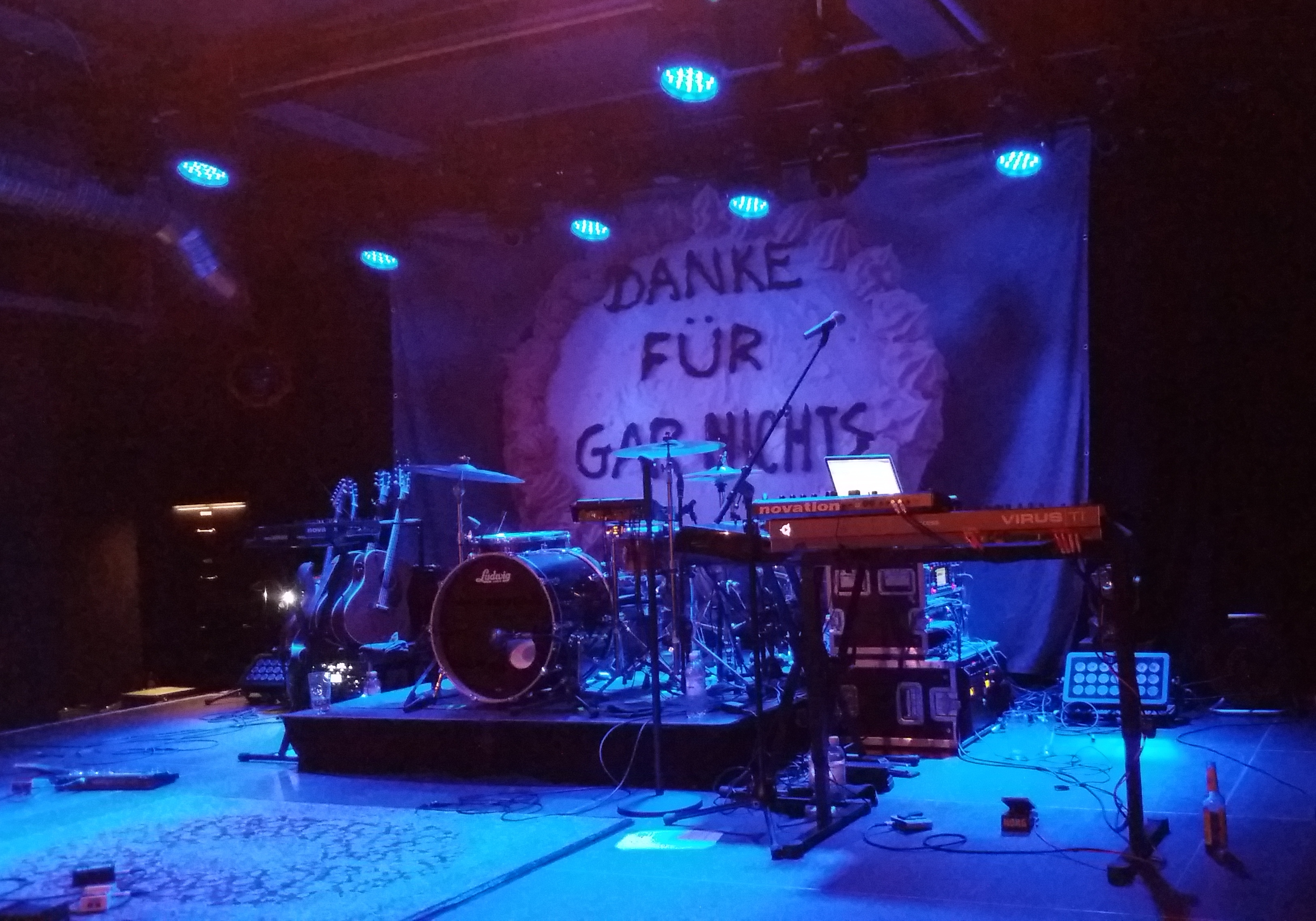 Stage during Madeline Junos "Was bleibt Tour 2019" in Frankenthal.